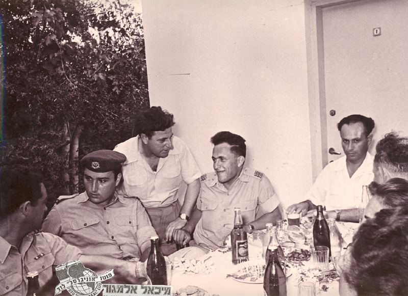 Events in Israel